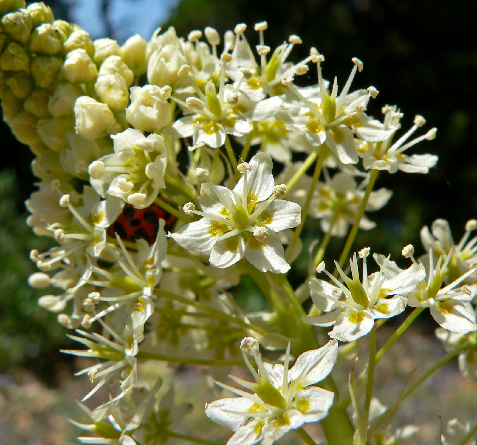 Zigadenus venenosus var. venenosus at the University of California Botanical Garden, Berkeley, California